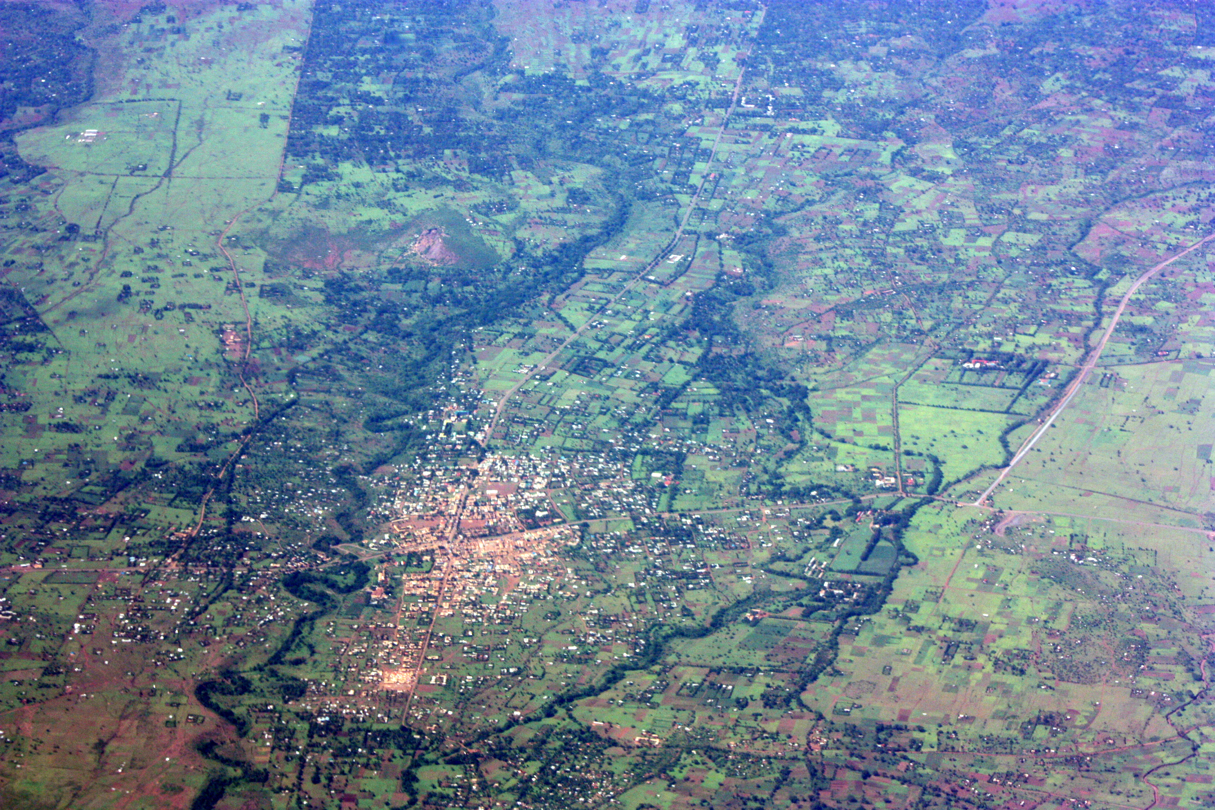 Aerial Photo of Himo, Tanzania in Northern Tanzania, close to the Kilimandjaro and the Kenyan border